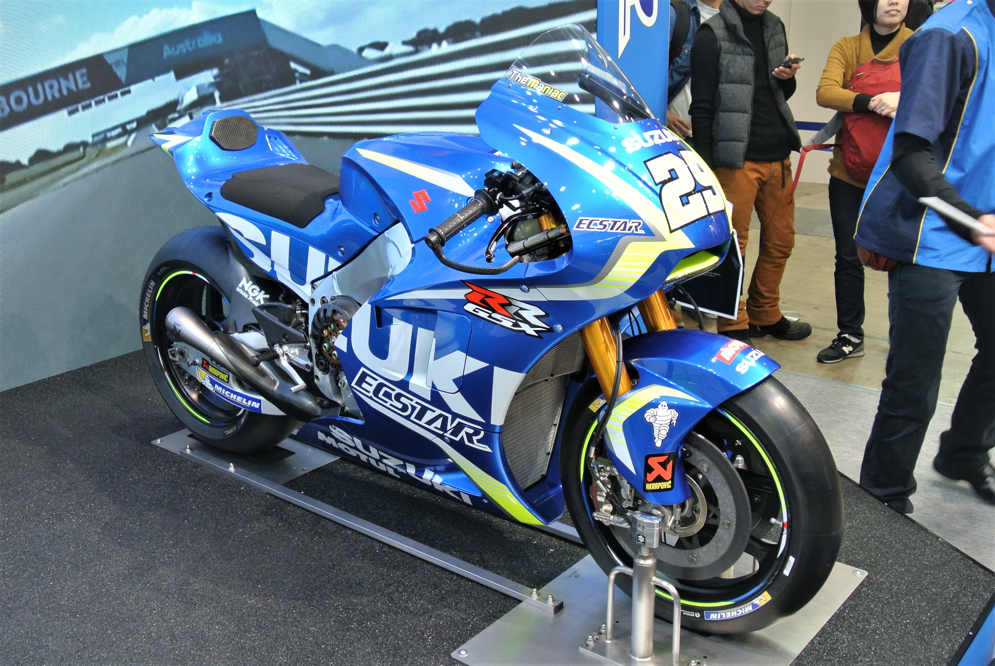 Suzuki MotoGP Bike GSX-RR at the Tokyo Motorcycle Show 2017. #29 Andrea Iannone.